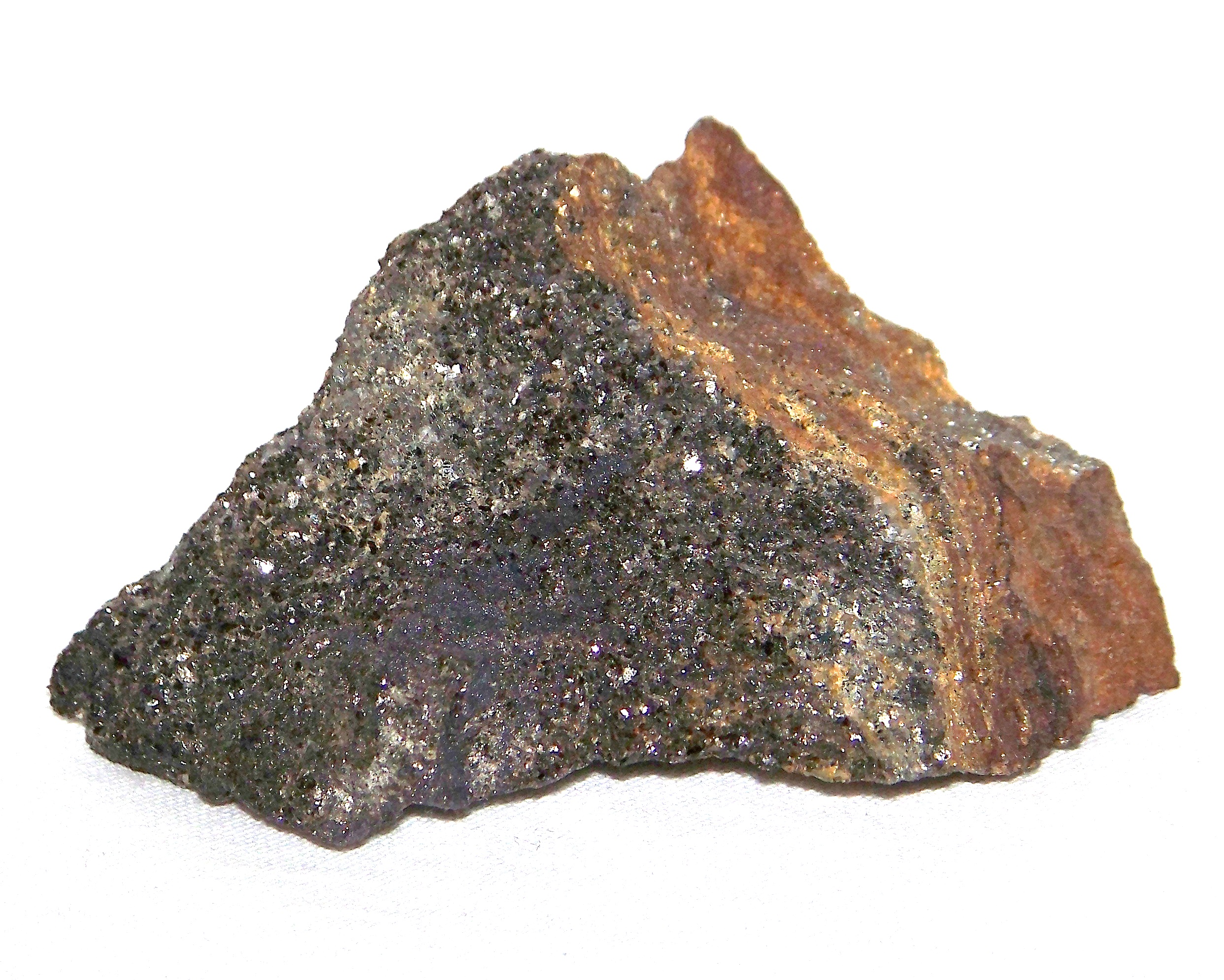 Hornfels